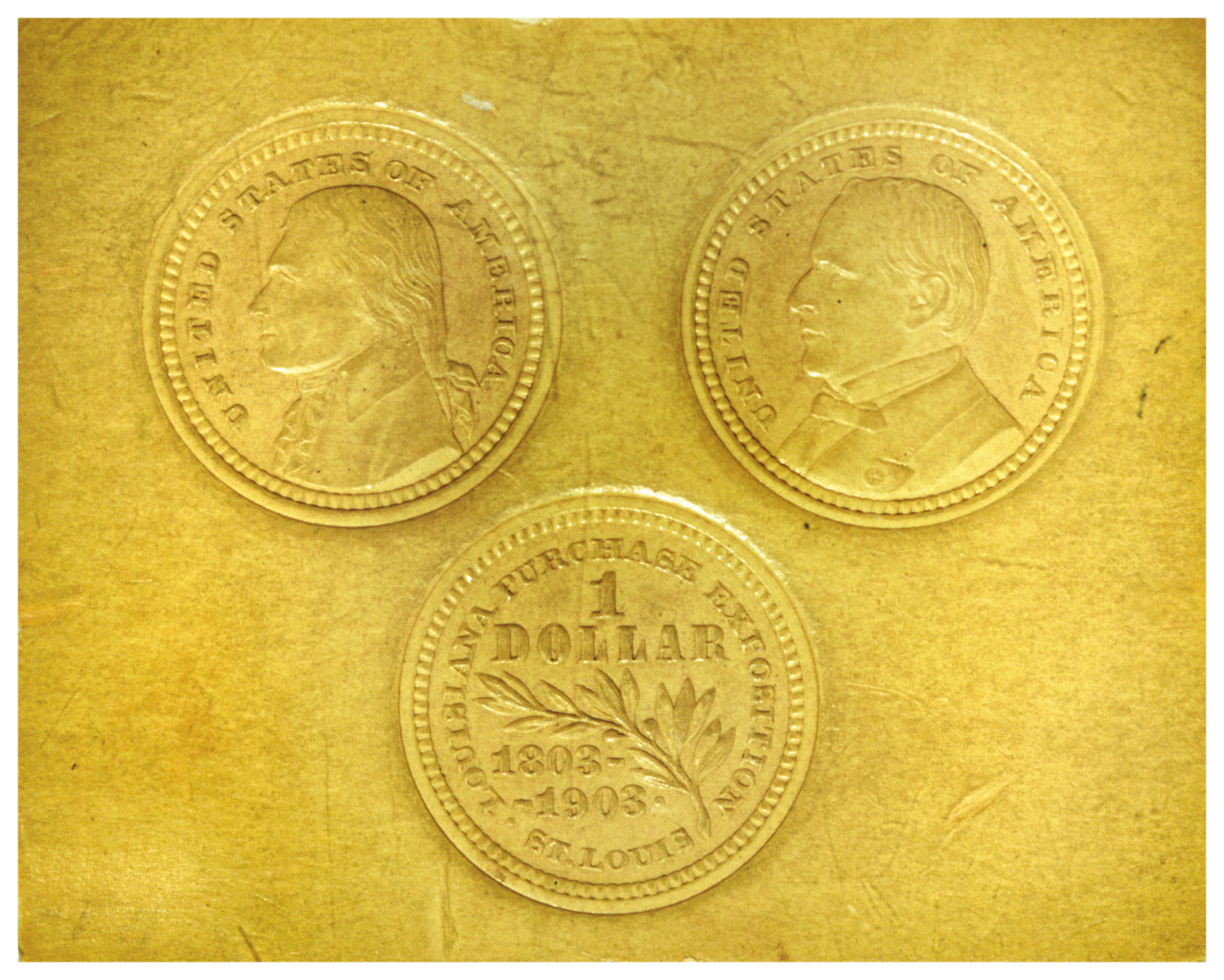 1903 MS Louisiana Purchase Three-Piece Cardboard Die Trial Impressions (1114-2166)